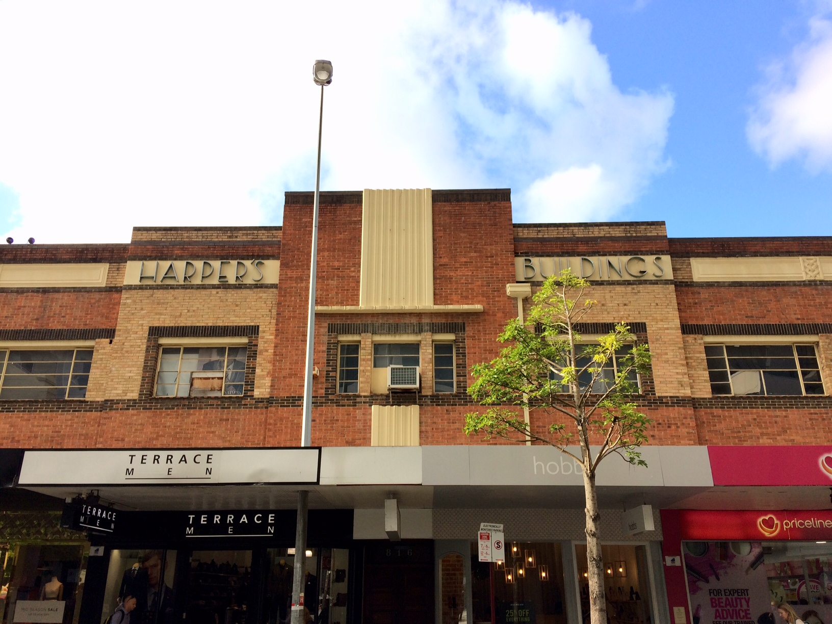 Art Deco Harper's Buildings on Hay Street, Perth